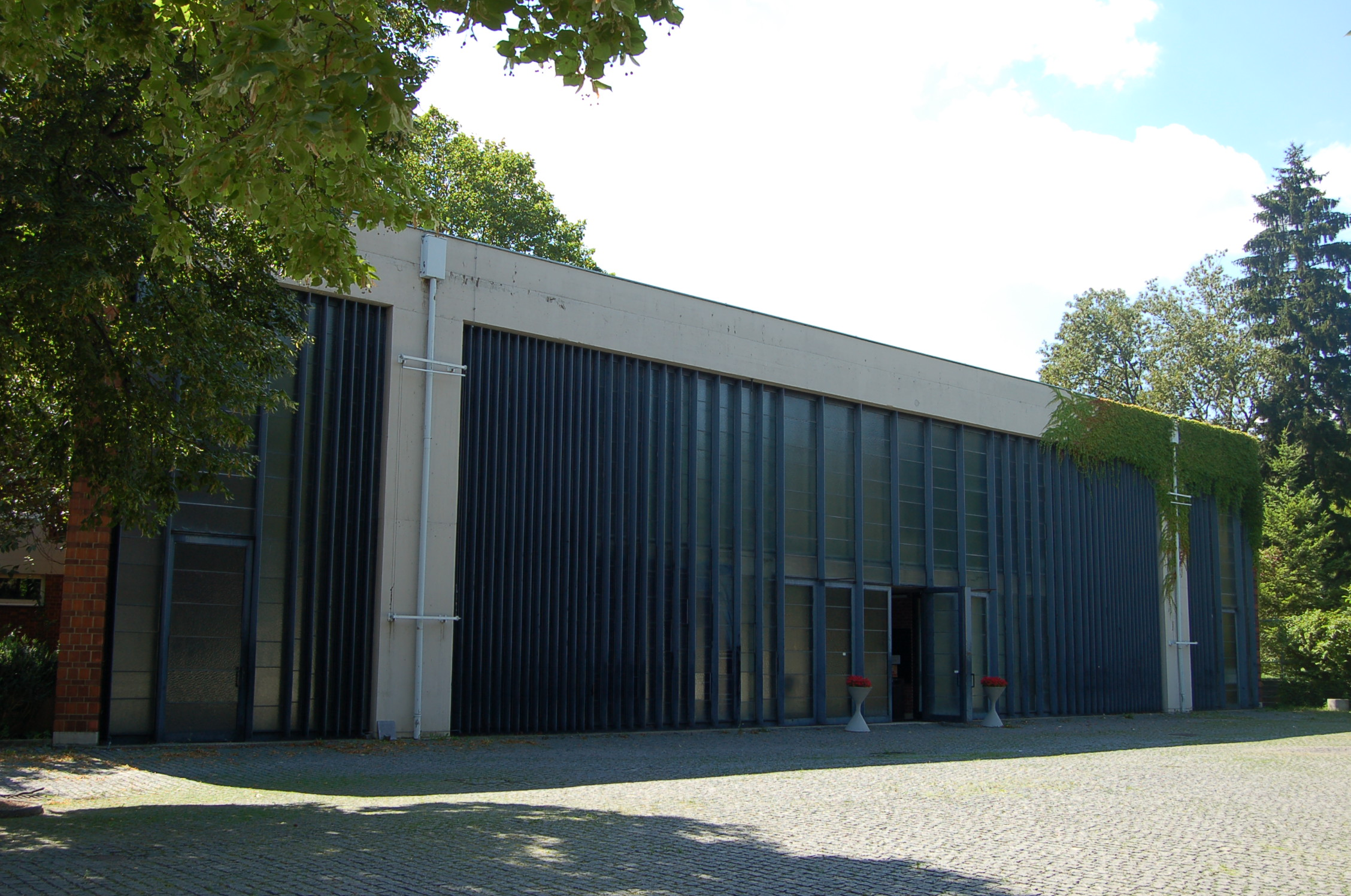 Poetzleinsdorf parish church, Vienna's 18th district